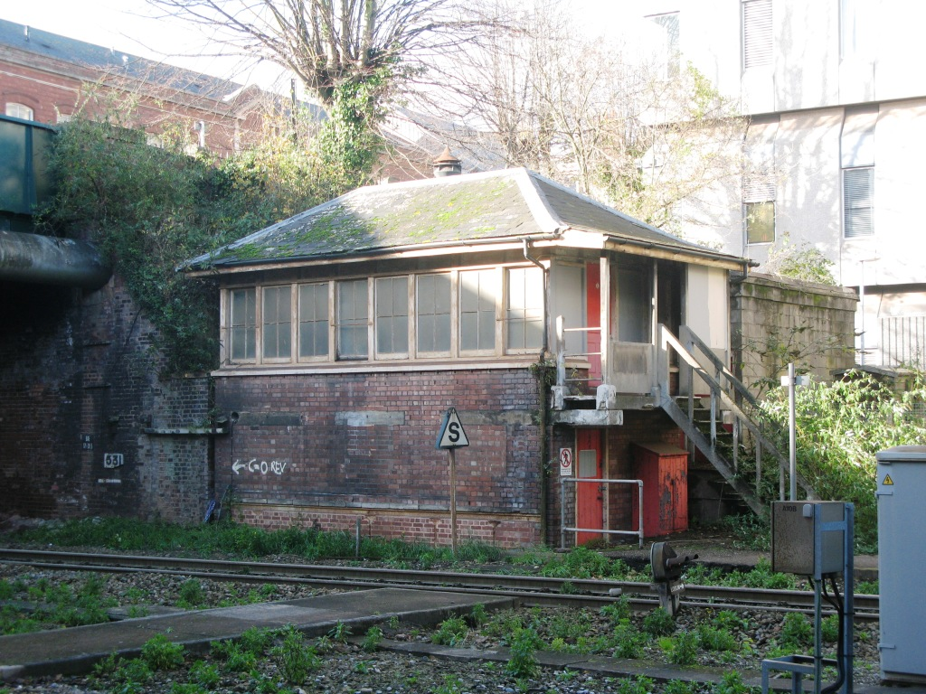 The old Exeter Central B signal box in Devon. This was built in 1925 when it was known as Exeter Queen Street C Signal Box; it became the B signal box in 1927 and the station was renamed in 1933. It has not been used for signalling since 1970.